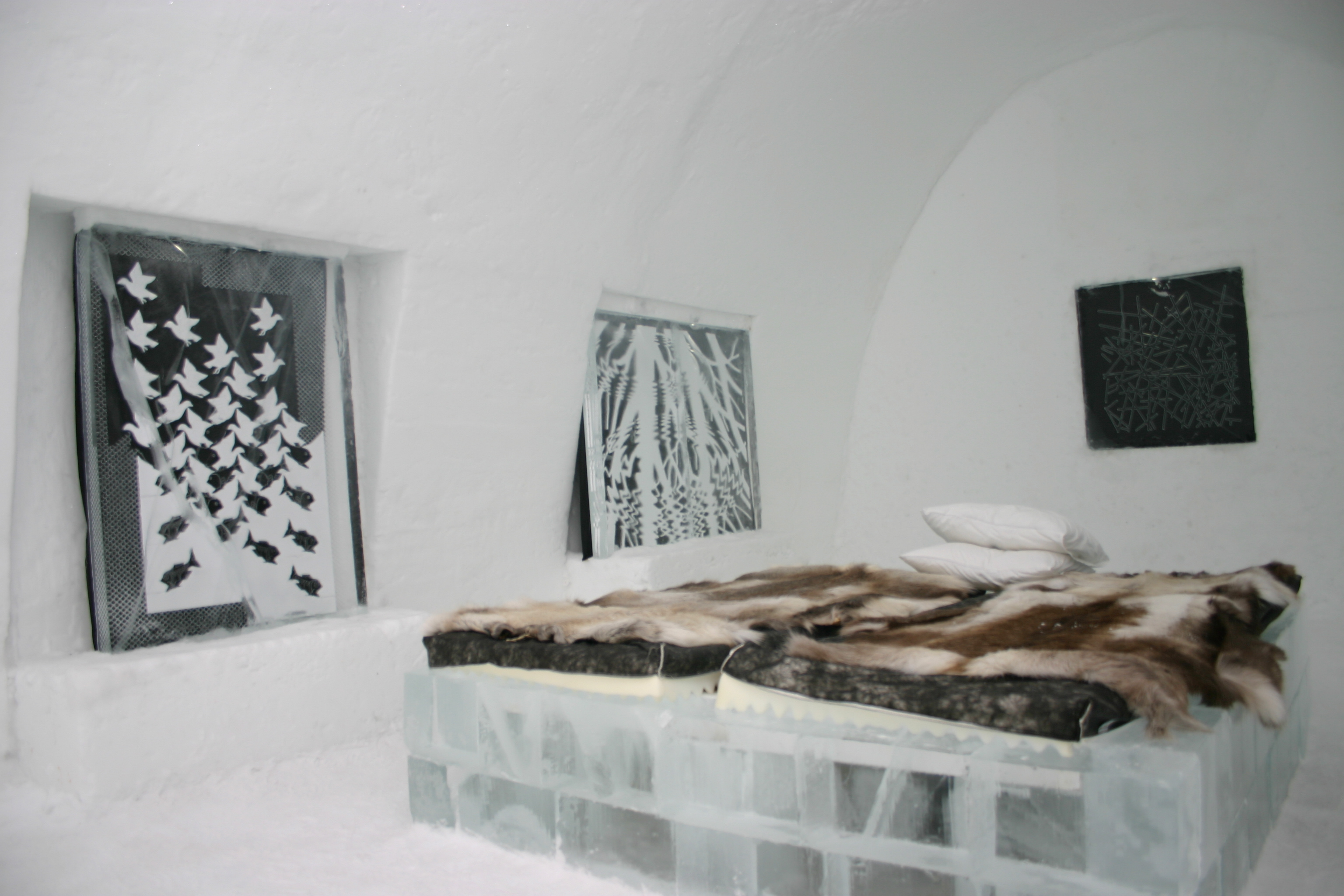 The Ice Hotel in Sweden. The Ice Hotel near the village of Jukkasjärvi, Kiruna, Sweden